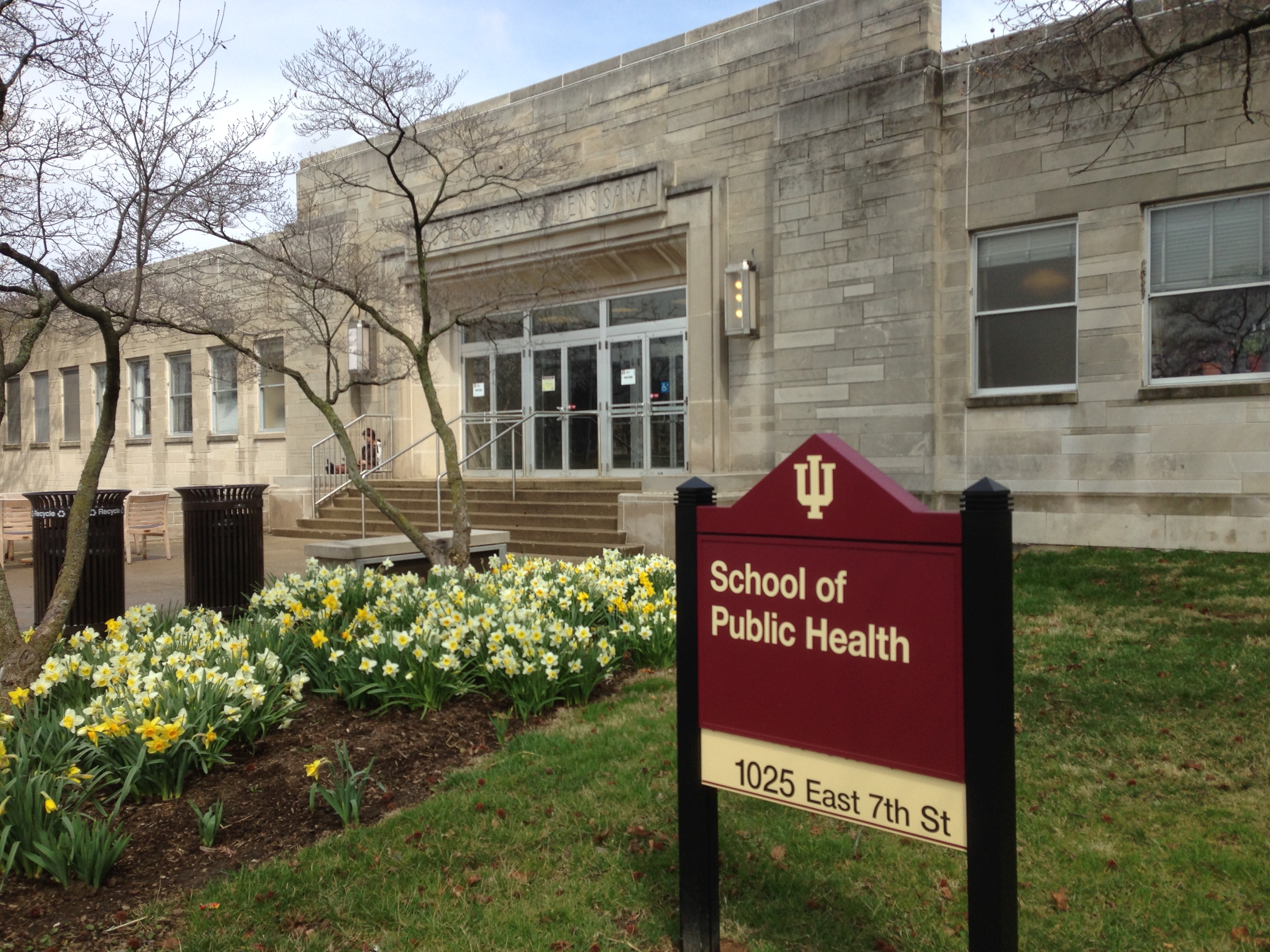 Exterior of the main entrance of the Indiana University School of Public Health-Bloomington